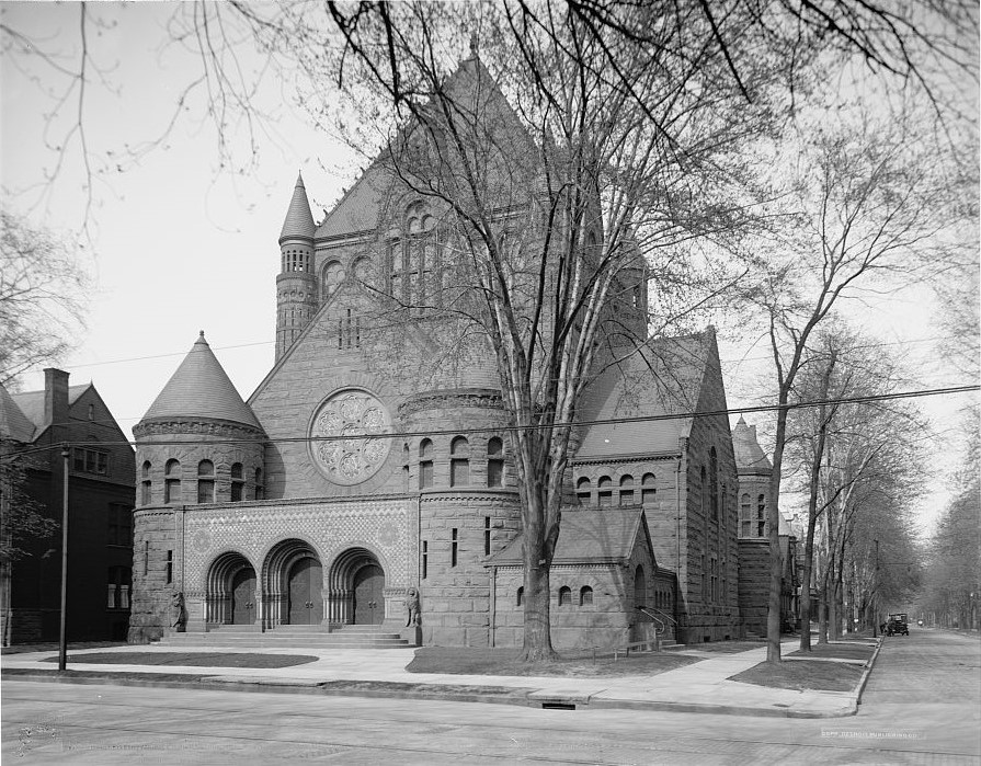 The historic First Presbyterian Church in Detroit, Michigan, United States, seen here from Woodward Avenue, is listed on the National Register of Historic Places. No longer a church, it is today the home of the Ecumenical Theological Seminary. NRHP reference number 79001174